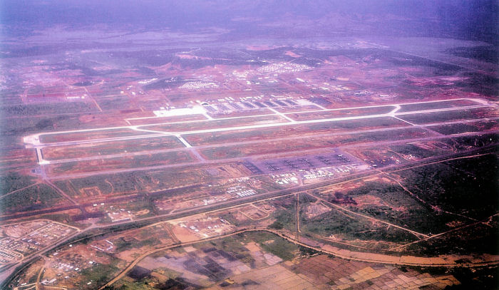 Aerial photograph of Phan Rang Air Base, South Vietnam.